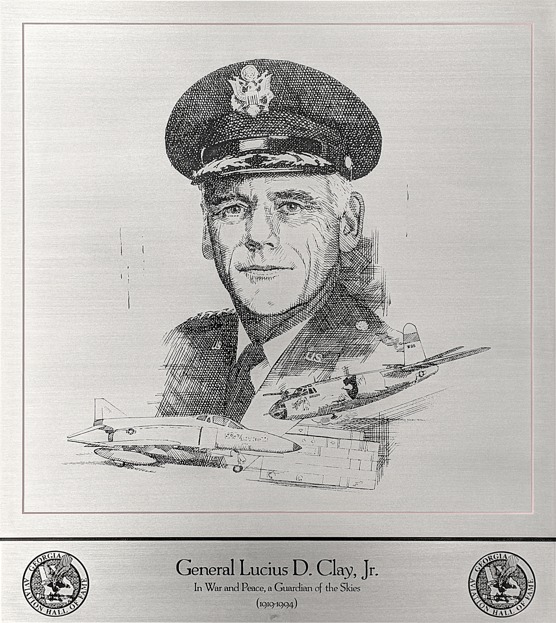 General Lucius D. Clay, Jr. (1919 - 1994)